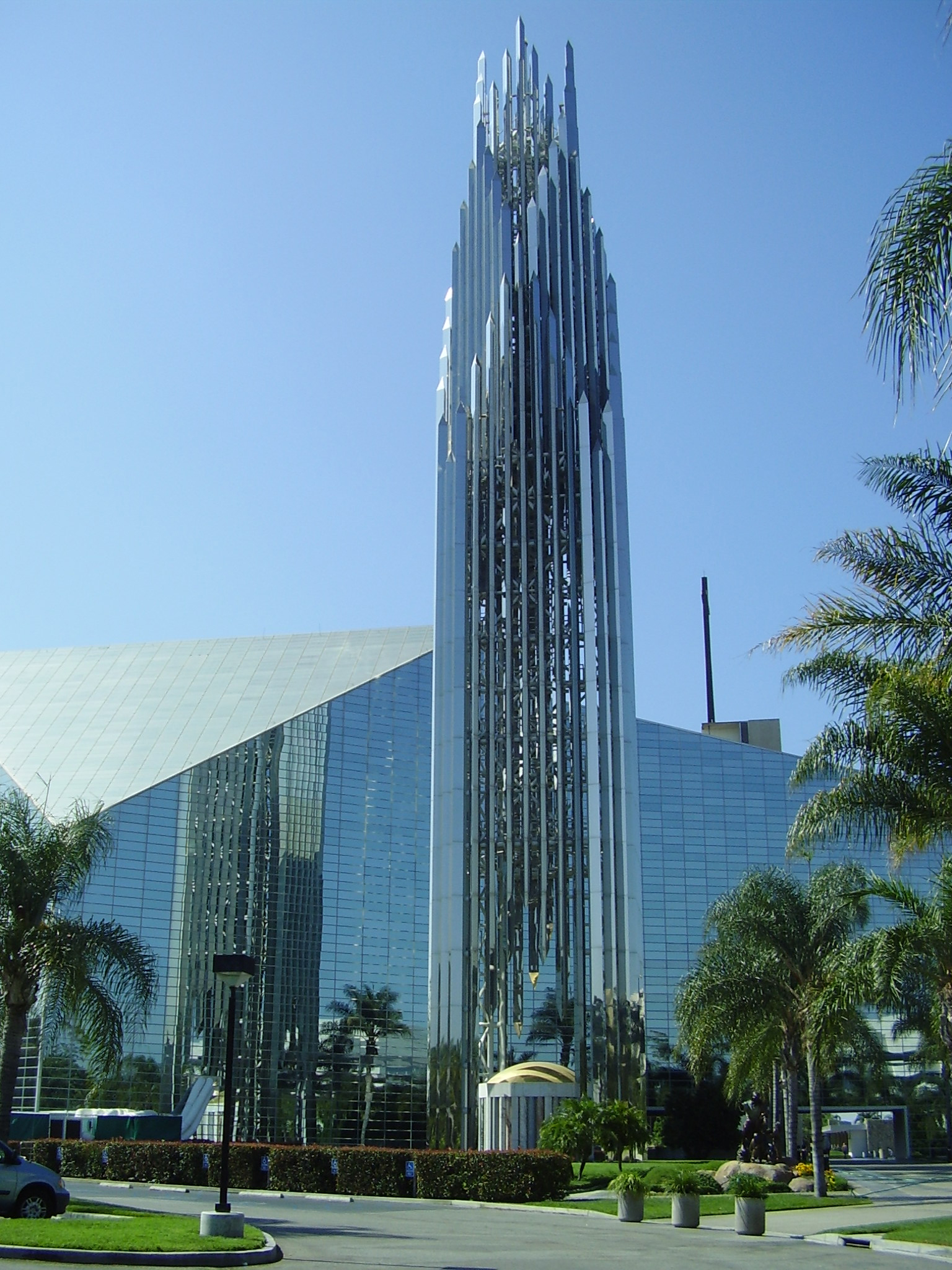 The Crystal Cathedral, a Protestant Christian megachurch in the city of Garden Grove, in Orange County, California.